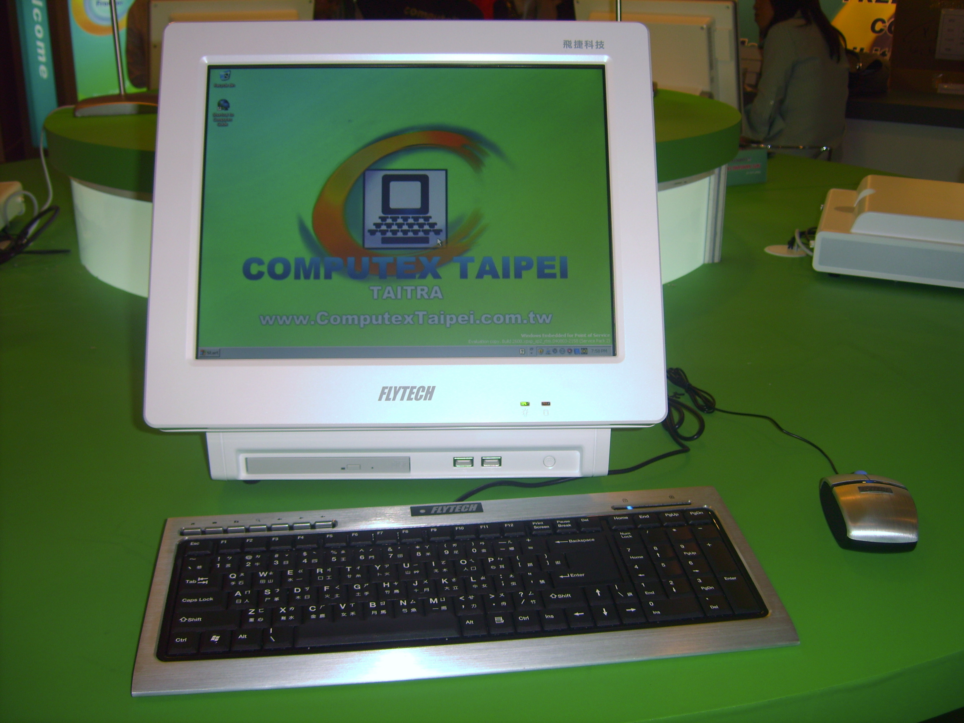 FLYTECH Technology Co., Ltd. provides an embedded PC for COMPUTEX Taipei buyers' lounge.)